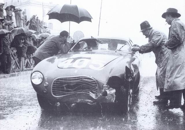 Entry #405 and overall WINNER of the Mille Miglia race in Italy on 28–29 April 1951 was the 1951 Ferrari 340 America Coupe by Vignale s/n 0082A, driven by Luigi Villoresi and Cassani of the Scuderia Ferrari team.[1] This may have been Pasquale Cassani, a mechanic in the Scuderia Ferrari team (died 2012 [2]). The car had gone off the road at Ravenna ("Motor Racing Heroes: The Stories of 100 Greats")